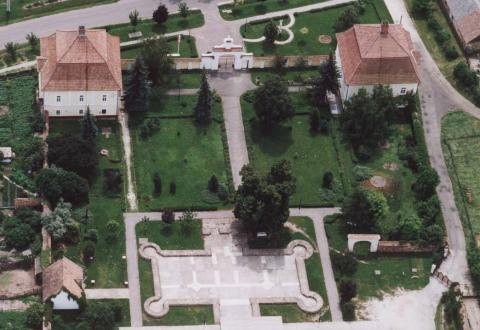 Szügy, Hungary, aerialphotography